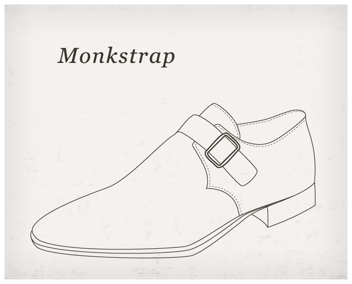 Illustration of a man's single-strap monk dress shoe.